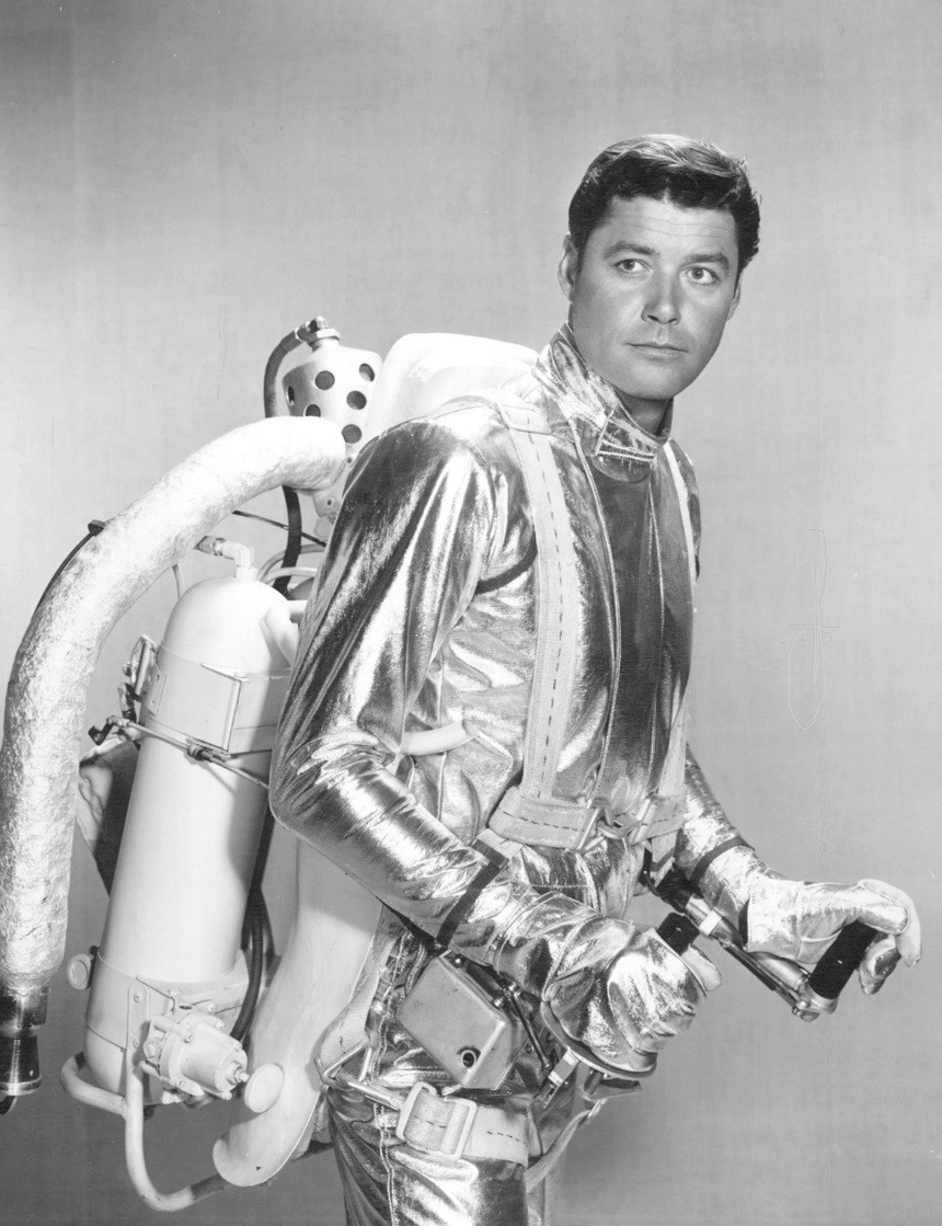 Photo of Guy Williams from the television series Lost in Space.